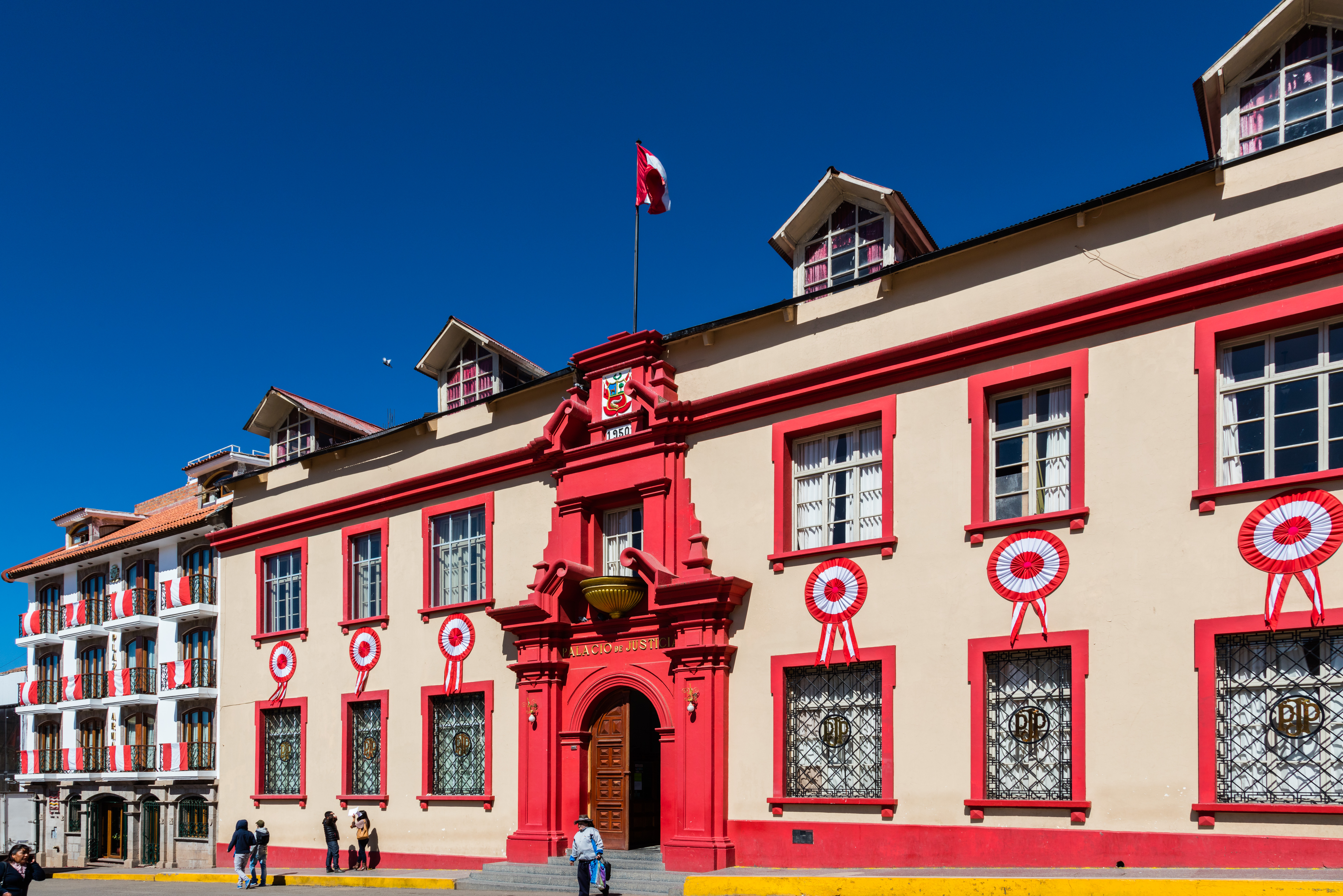 Justice Palace, Plaza Republicana, Puno, Peru